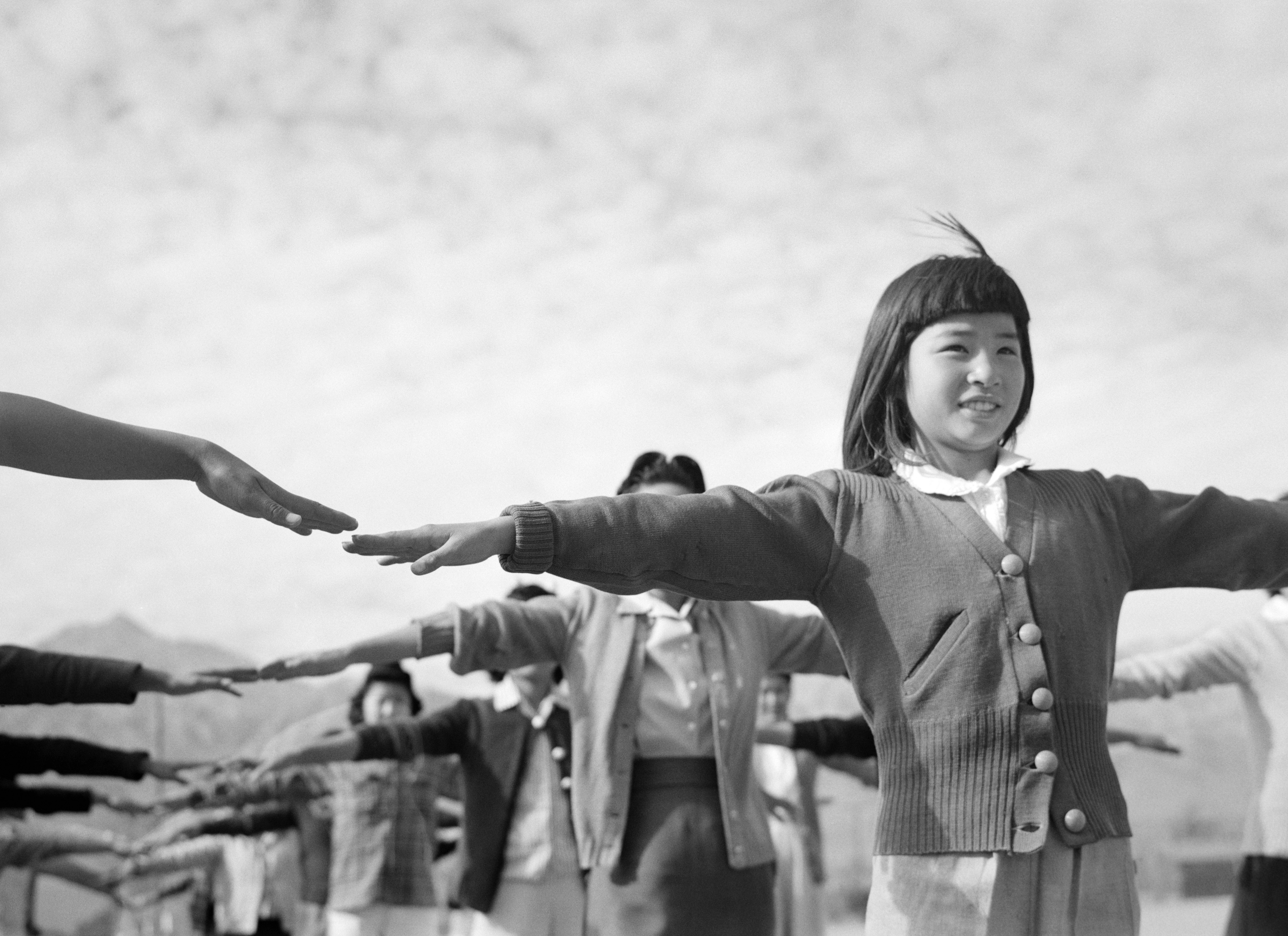 Female internees practicing calisthenics at Manzanar War Relocation Center, Owens Valley, California. In 1943, Ansel Adams followed an invitation by newly appointed camp director Ralph Merritt to photograph the everyday life of the Japanese American internees in the camp. Unlike his colleague Dorothea Lange, whose pictures for the War Relocation Authority focused on the hardship and humiliation of the deportation and internment, Adams's intent was to "show how these people, suffering under a great injustice, (…) had overcome the sense of defeat and despair by building for themselves a vital community in an arid (but magnificent) environment." (Ansel Adams, 1965) Group of girls standing in line formation, each one reaching both of her arms straight out to the side.